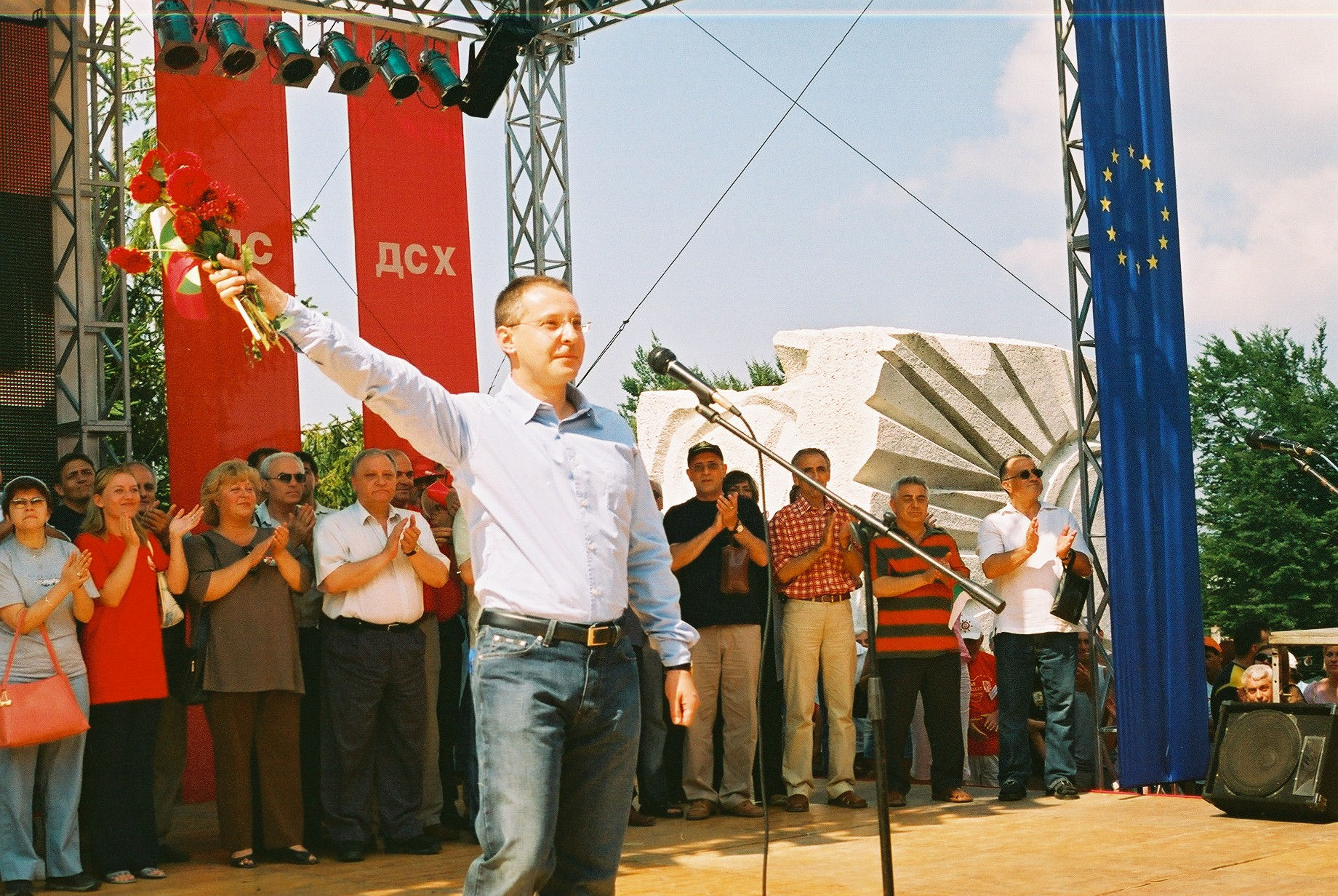 Sergey Stanishev, Prime Minister of Bulgaria